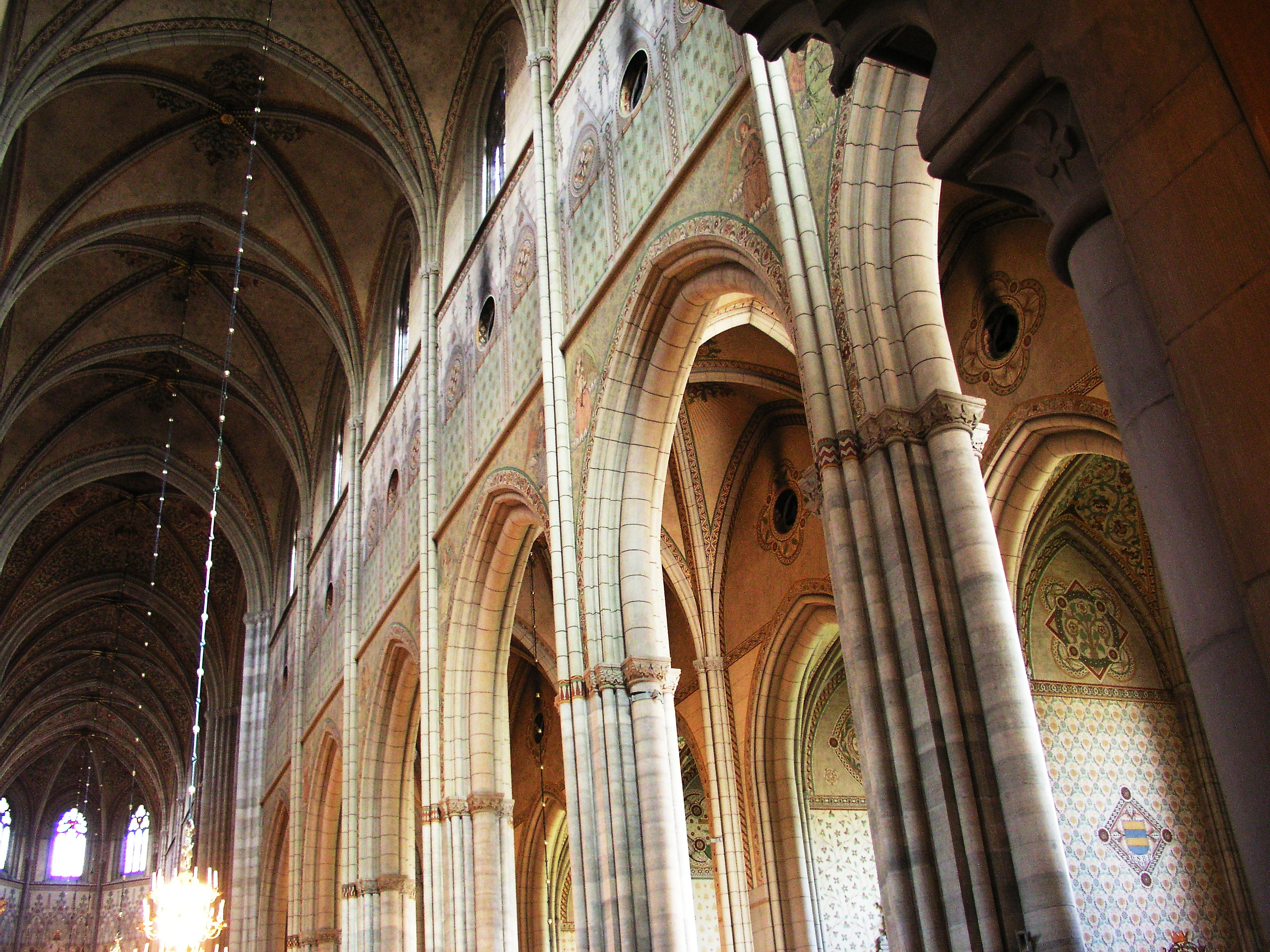 Interior of Uppsala Cathedral